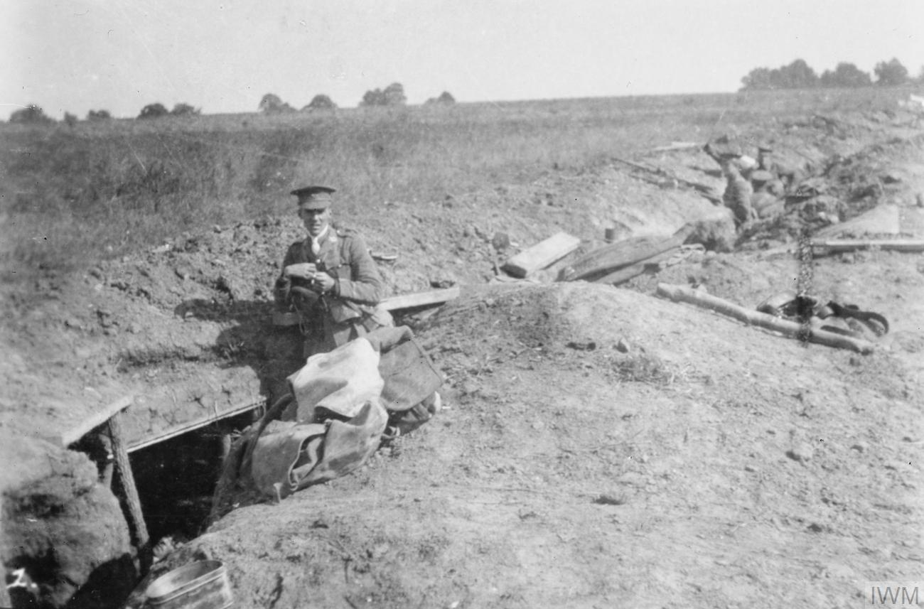 The First Battle of the Aisne, September 1914 Troops of the 1st Battalion, The King's Own (Royal Lancaster Regiment), 12th Brigade, 4th Division, in the front trench at St. Marguerite, 22nd September 1914. The officer is Second Lieutenant R. C. Matthews, probably the CO of "A" Company.